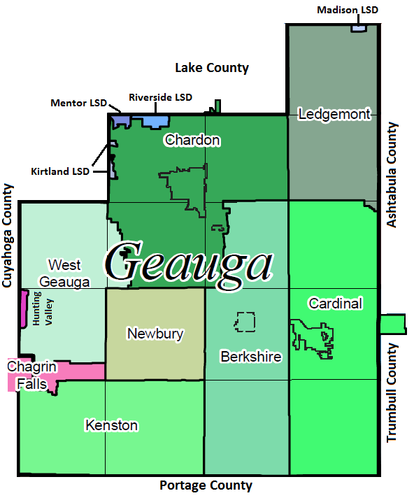 Map of school districts in Geauga County with township and municipal boundaries superimposed. Original school district map from the Public Utilities Commission of Ohio website [1]. Geauga County school district names are outlined in white. Portions of school districts from neighboring counties are indicated.